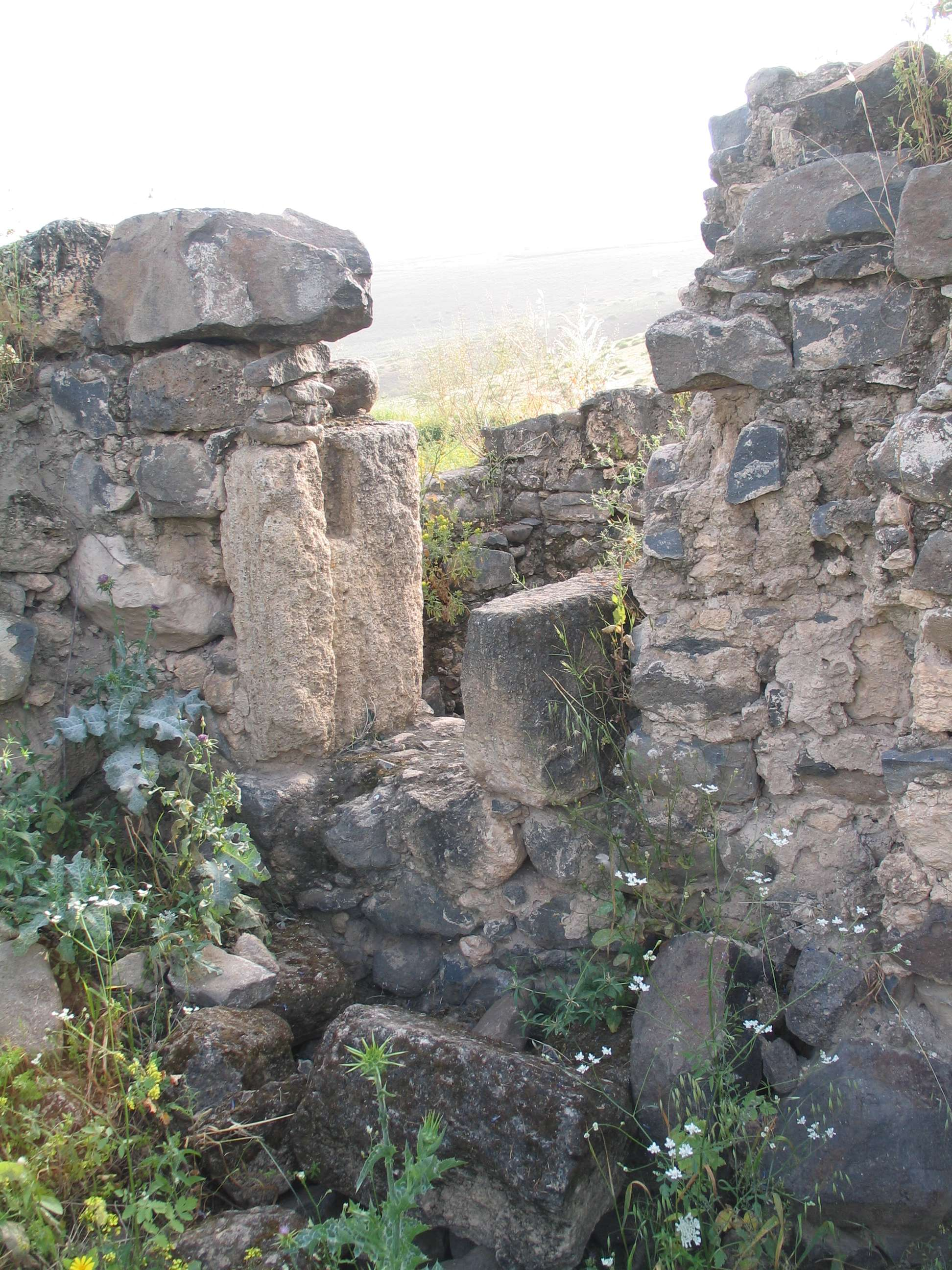 Ateret fortress, Israel.